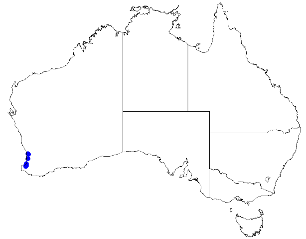 Boronia humifusa occurrence data downloaded from Australasian Virtual Herbarium 10 April 2019 using This download included all the environmental overlay fields and ALA's data checking fields including "cultivated / escapee", "outside expert range for species", "latitude is negated", "coordinates are transposed", "taxon misidentified", "habitat incorrect for species", and "suspected outlier" (over 730 fields). Deleting occurrences for which any of the above were true, 46 specimens with coordinates were deleted. However this did not remove all obvious spatial outliers some of which were later removed by hand.